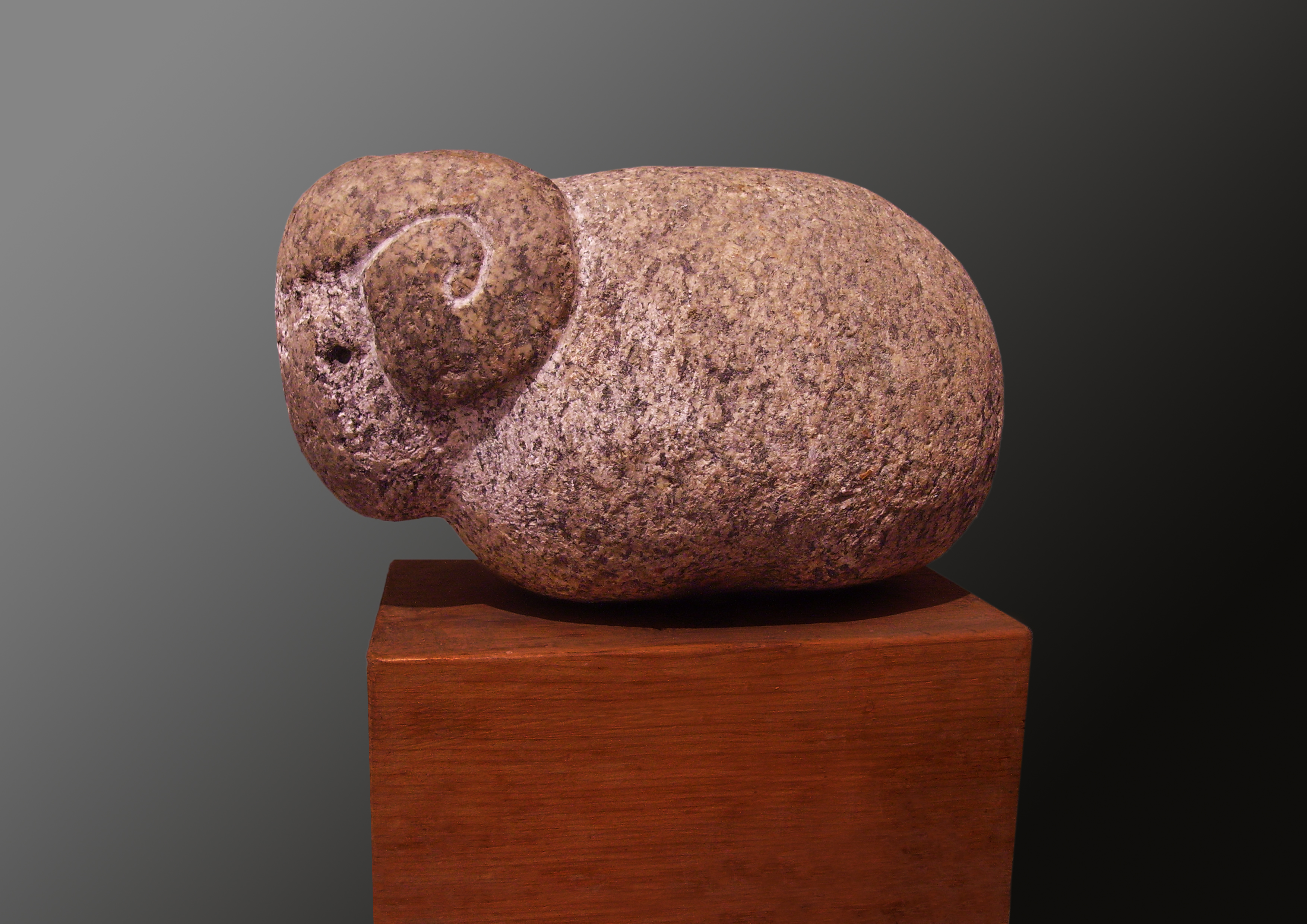 Oskenbay Malik. "Sacrifice". 2004. Material: granite, wood. Size: 20x12x23.